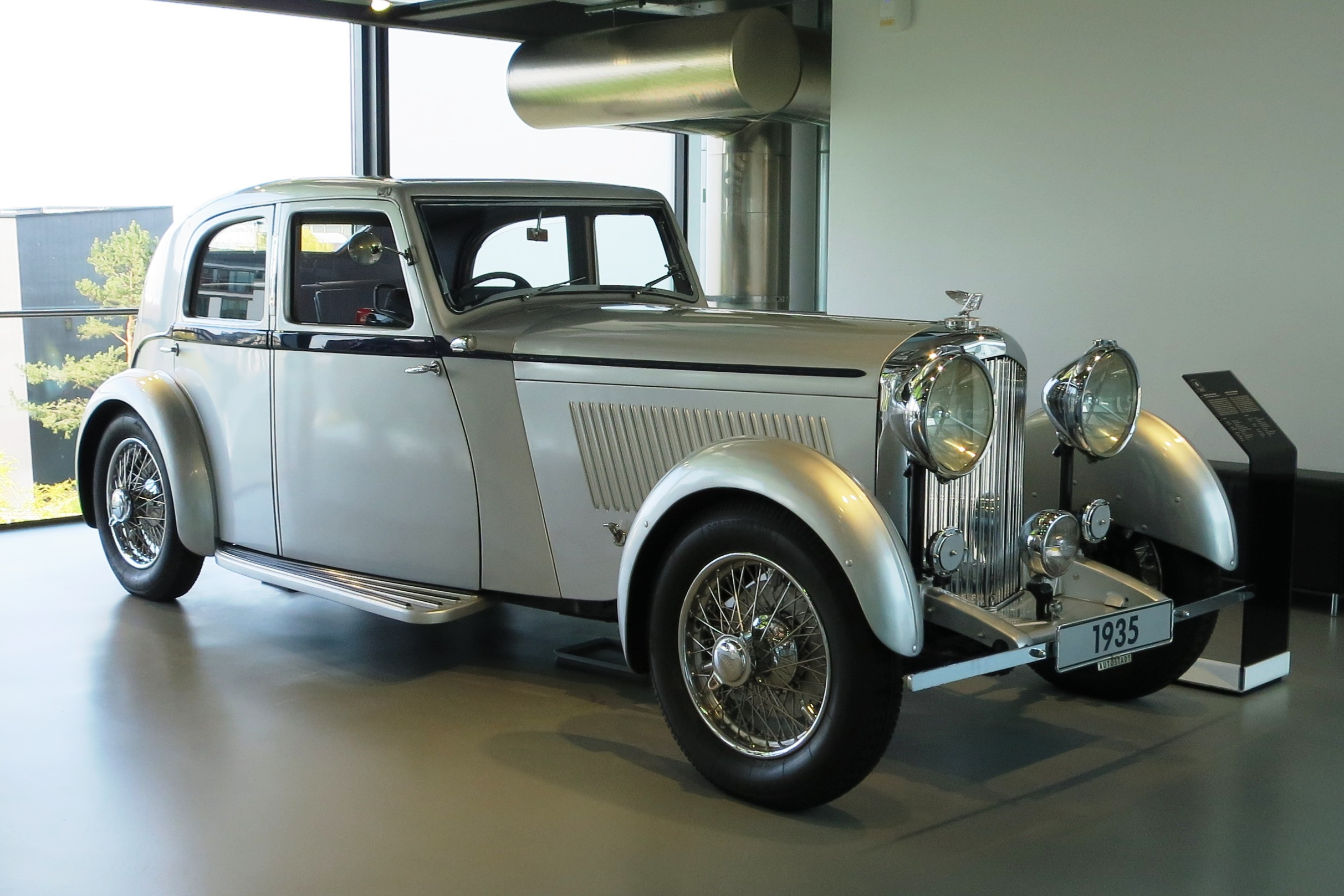 Bentley 3½ Litre (1935)